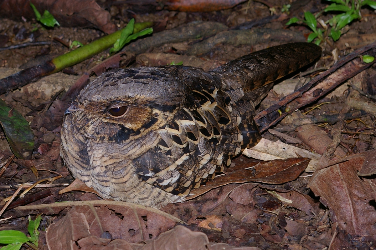 Common pauraque, Nyctidromus albicollis